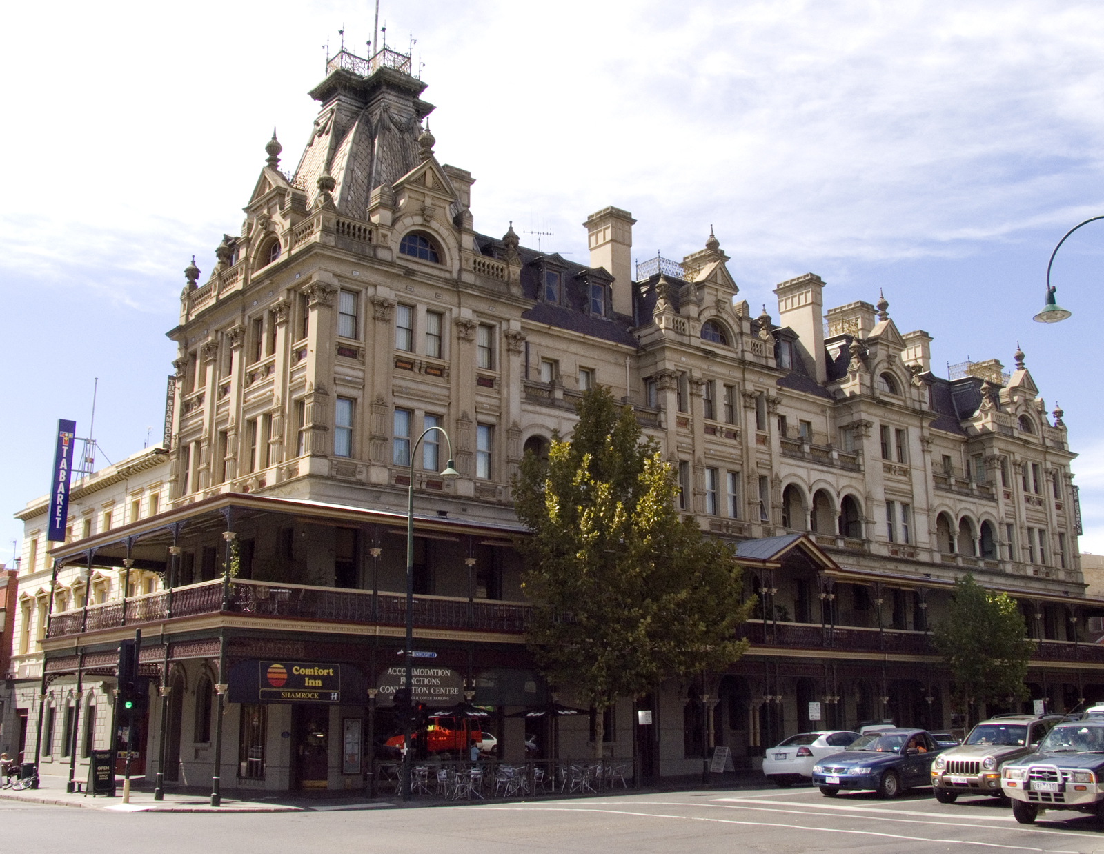 Bendigo Building main street